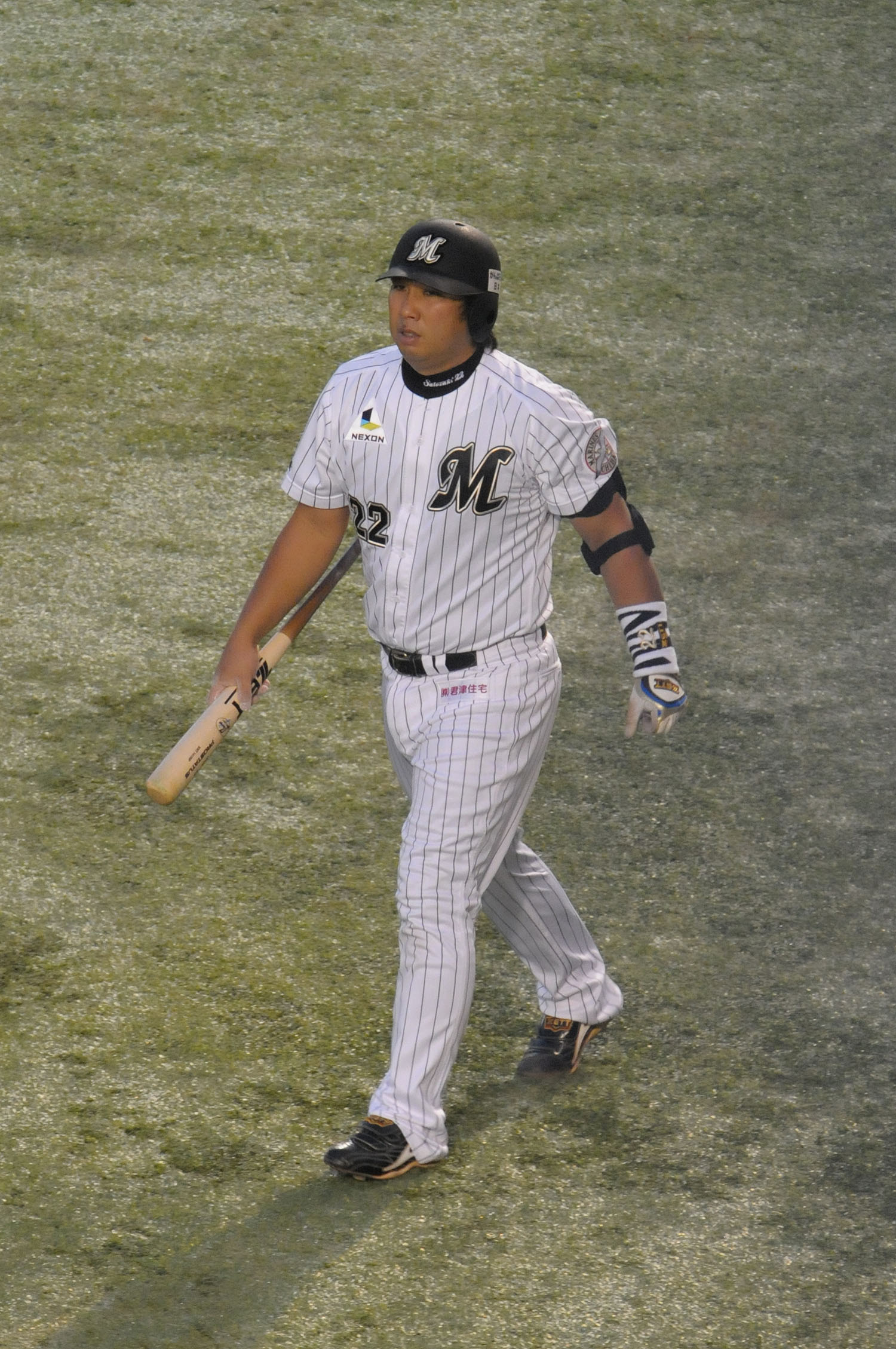 Tomoya Satozaki, catcher of the Chiba Lotte Marines, at Chiba Marine Stadium.